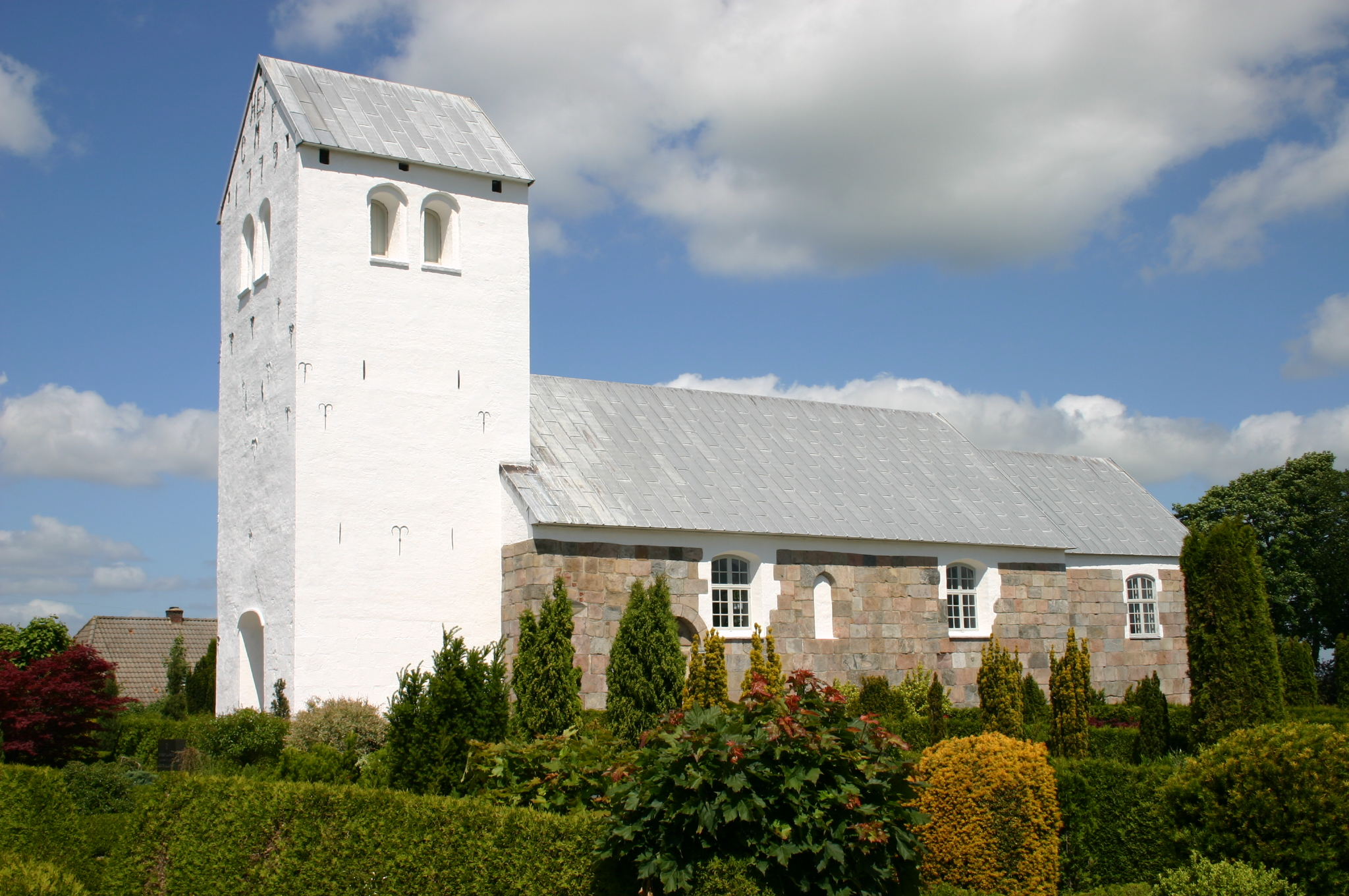 Almind Church south of Viborg, Denmark. Almind Kirke syd for Viborg Almind Kirke ved Viborg